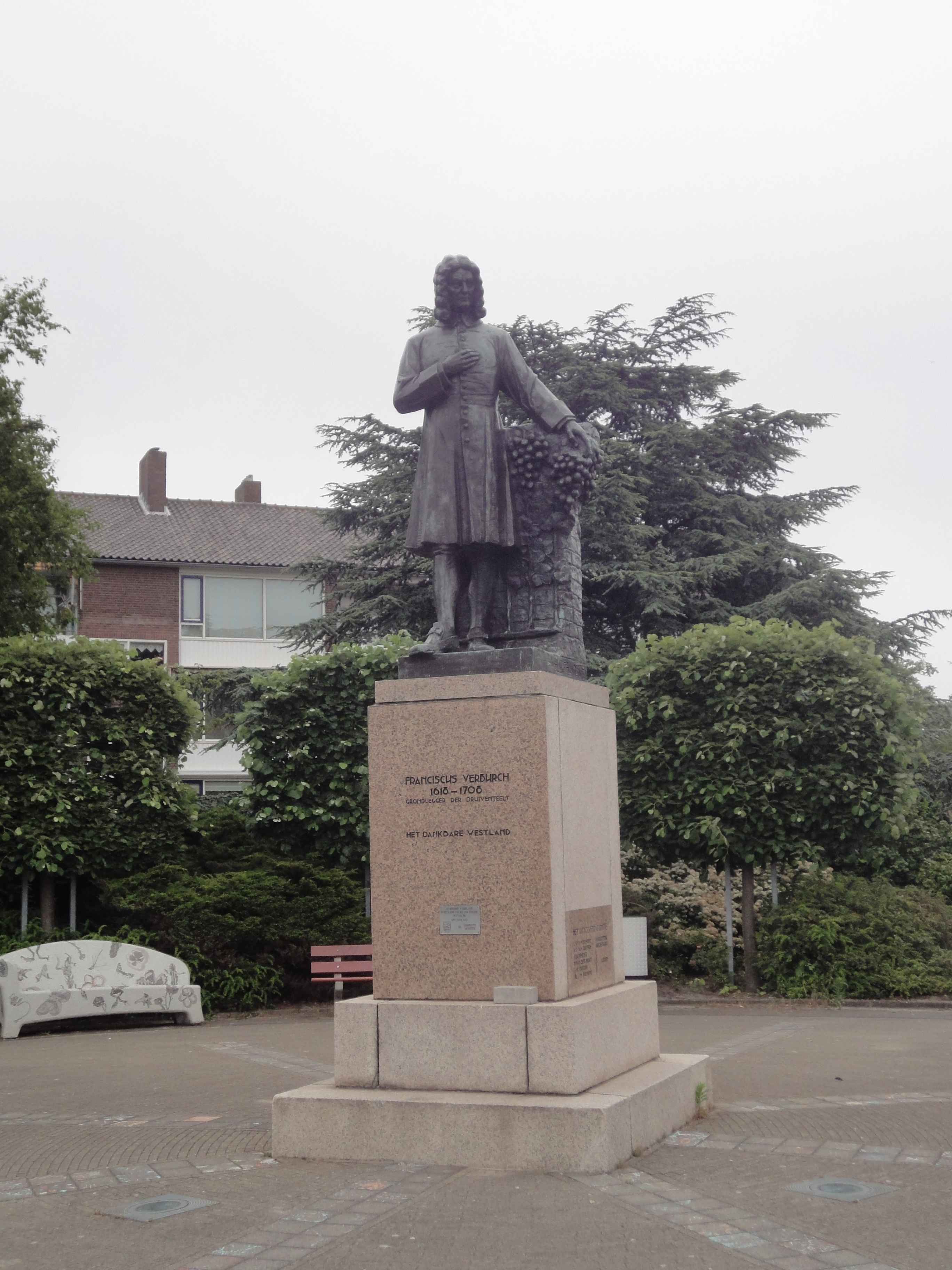 Sculpture in Poeldijk